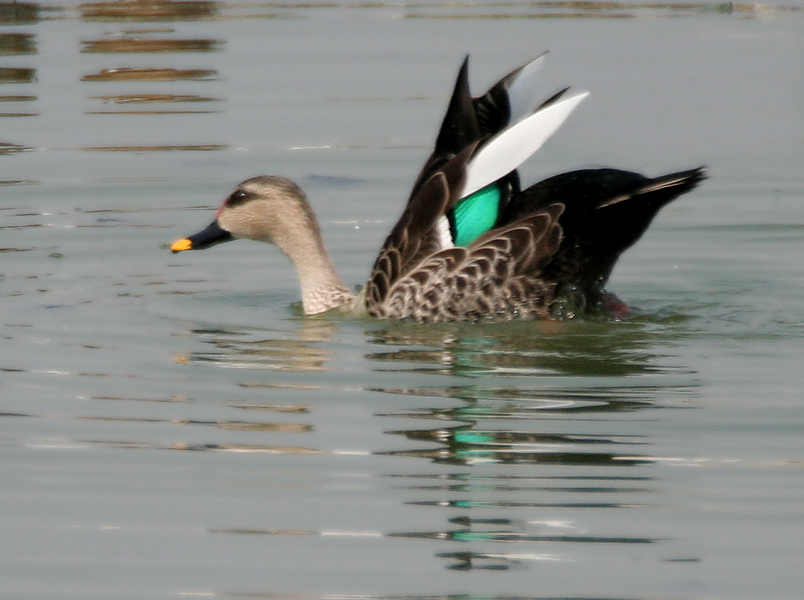 Spotbill or Spot-billed Duck Anas poecilorhyncha in Hyderabad, India.